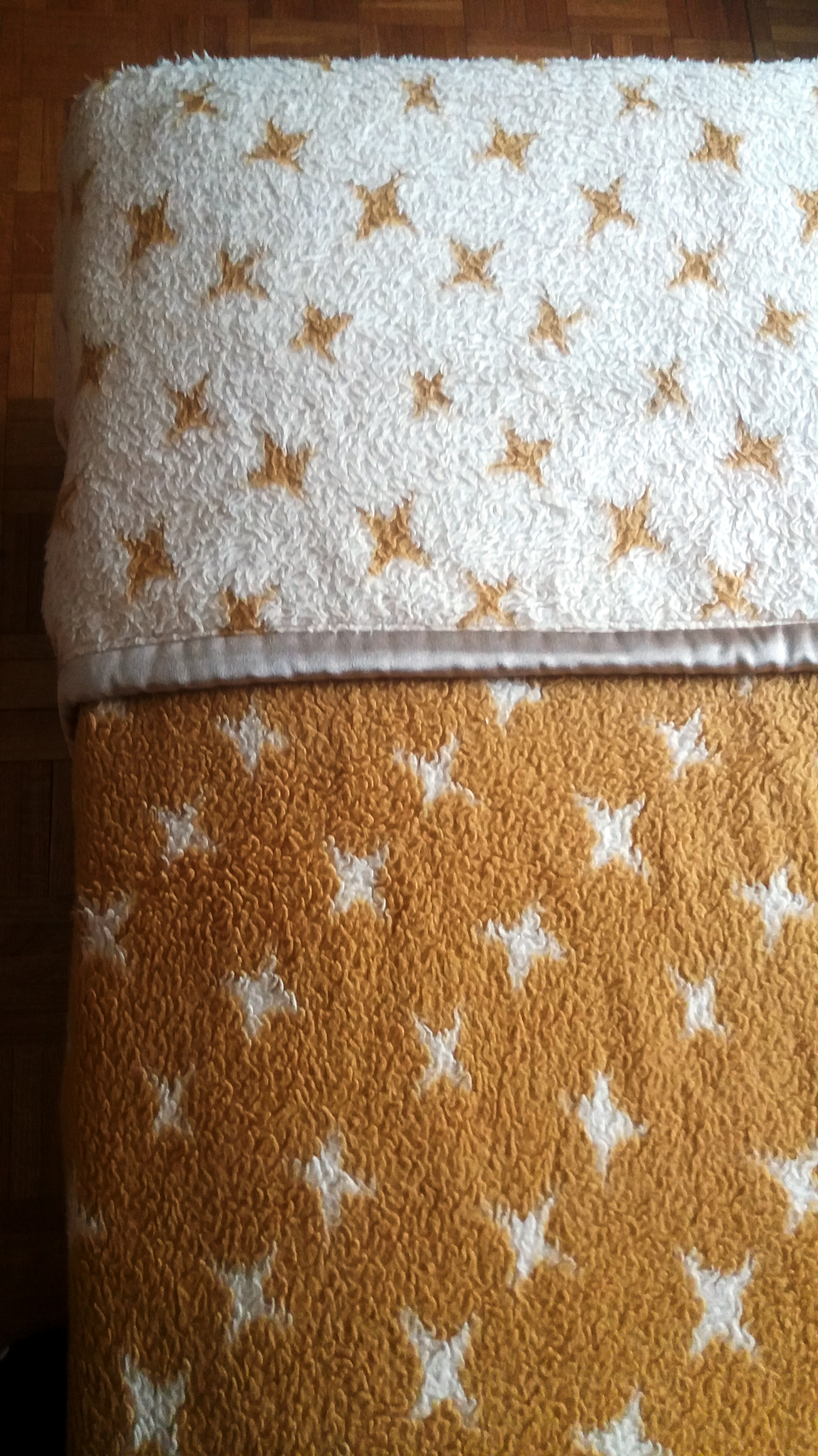 Blanket, cover made of synthetic material